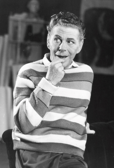 Sture Lagerwall as Boboll in the play Bobosse by André Roussin at Malmö Stadsteater